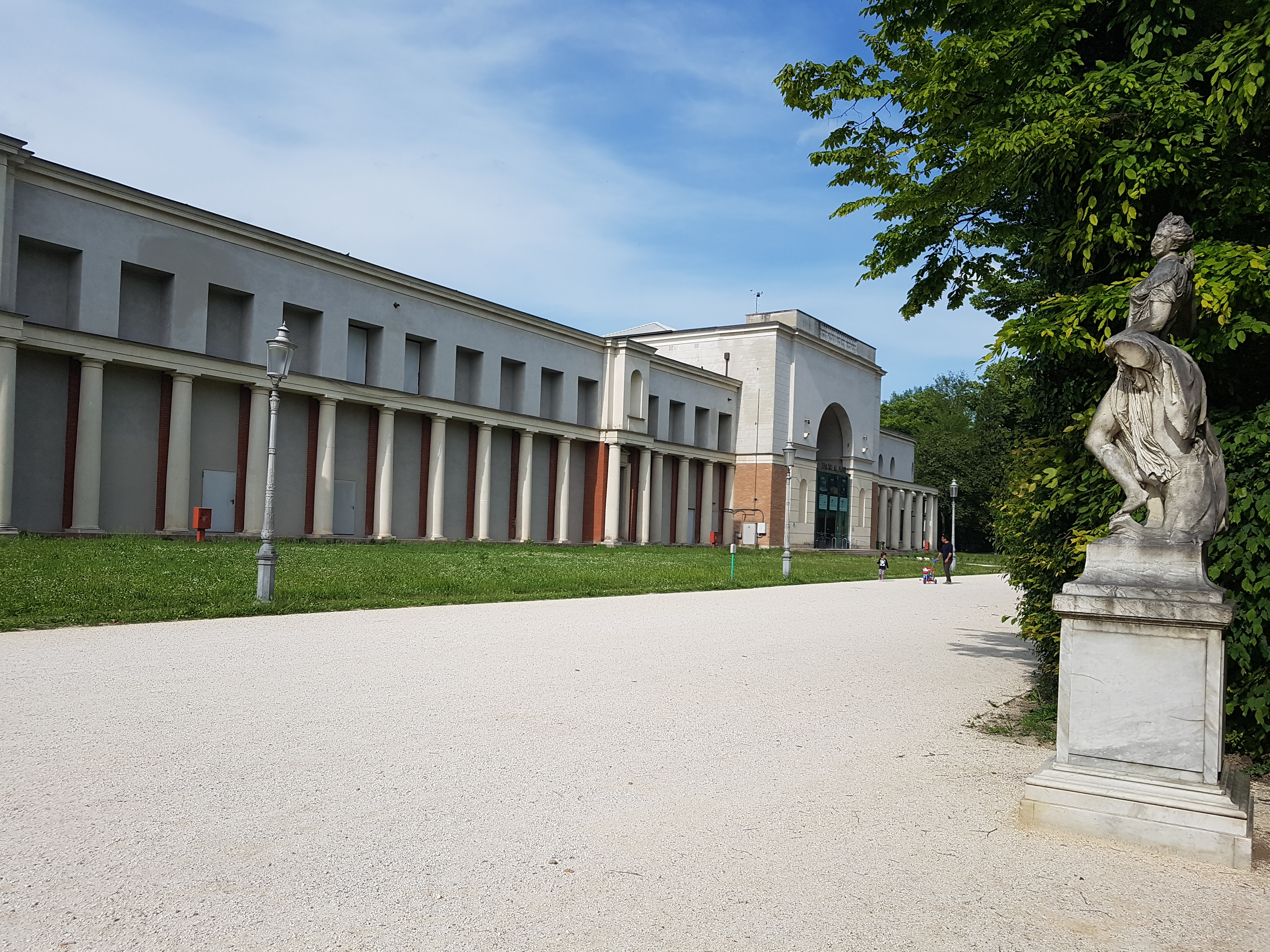 This is a photo of a monument which is part of cultural heritage of Italy.